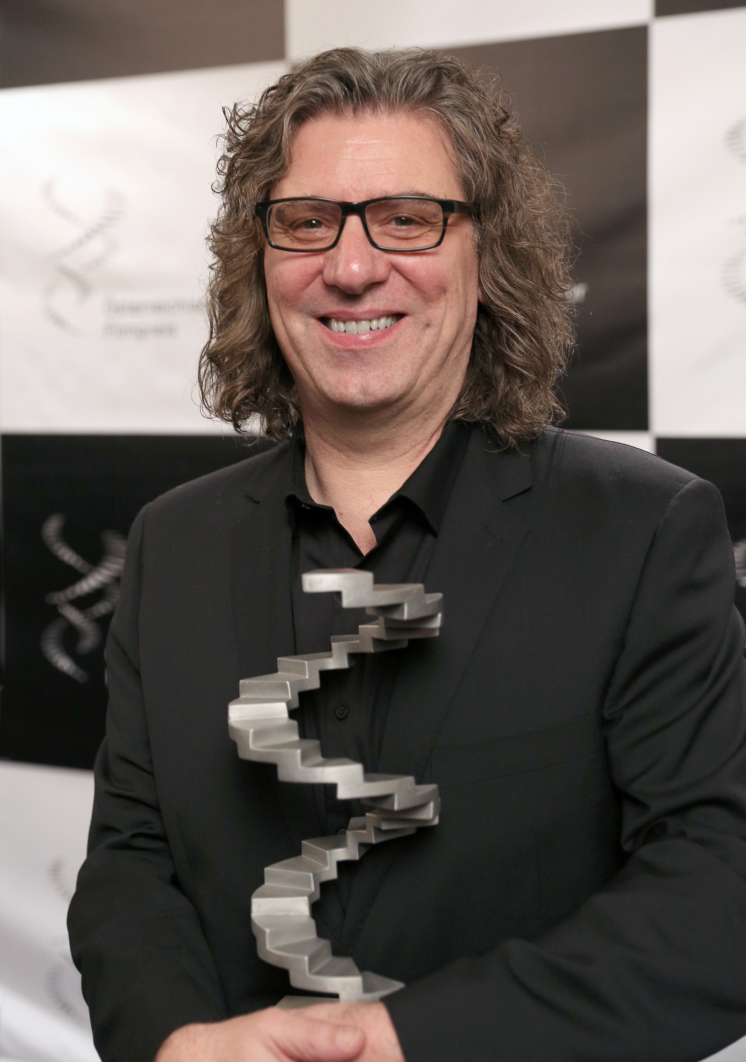 Matthias Weber (best score for The Dark Valley) at the Austrian Film Awards 2015 at Rathaus, Vienna,Austria.